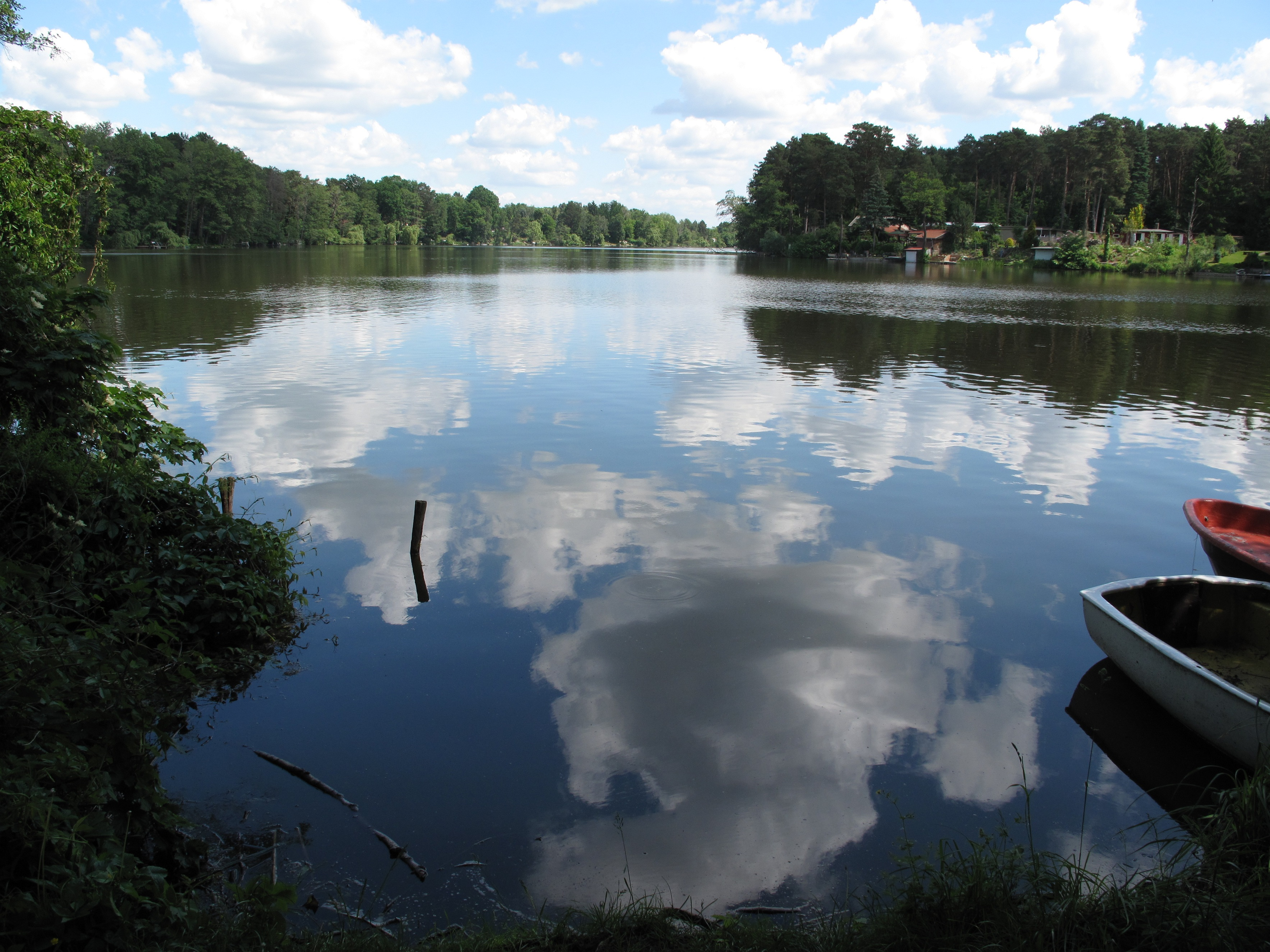 The Elsensee is a lake in Kagel, part of the municipality Grünheide, District Oder-Spree, Brandenburg, Germany. The lake covers 18 hectare.